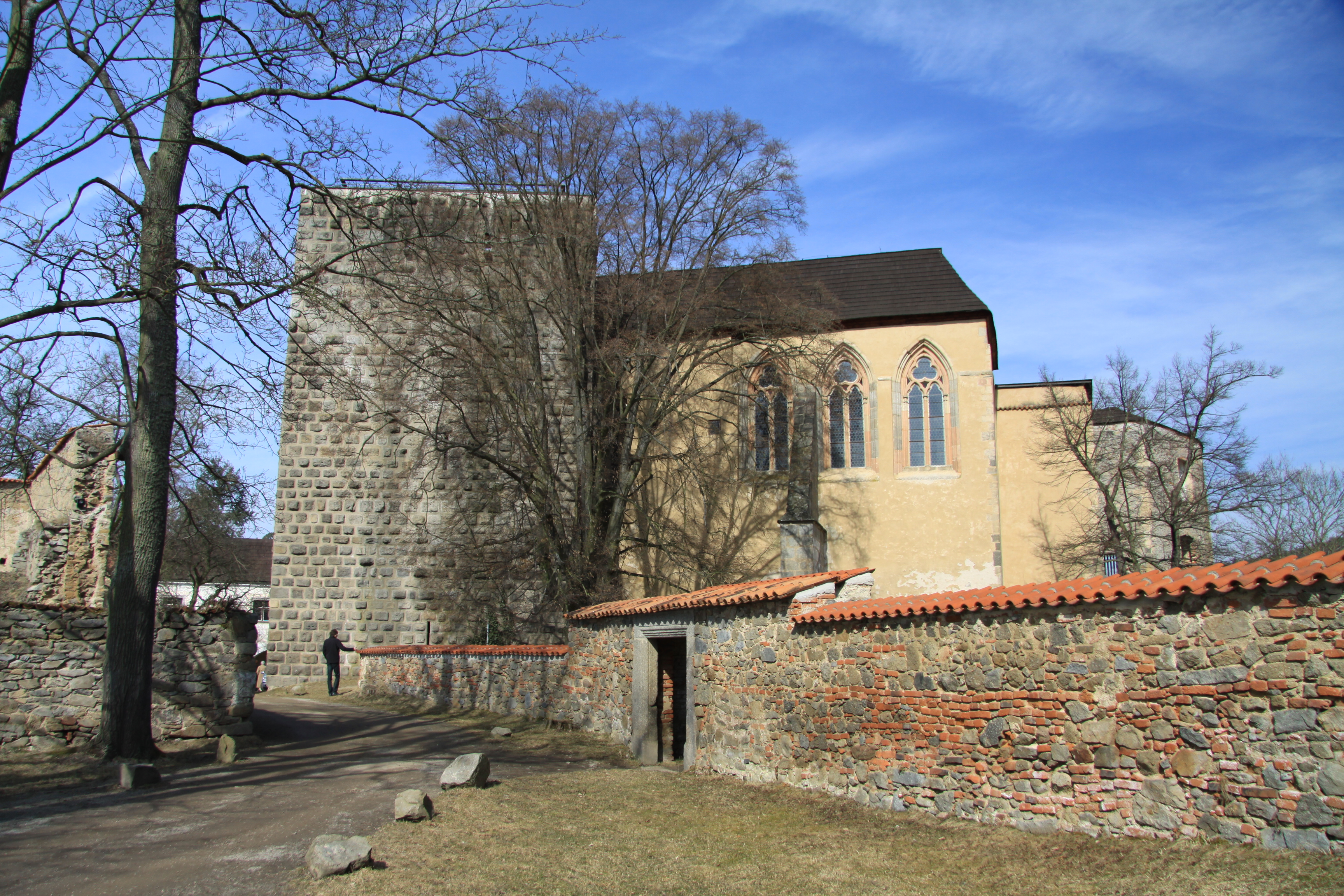 Zvíkov castle in Pisek District, Czech Republic.